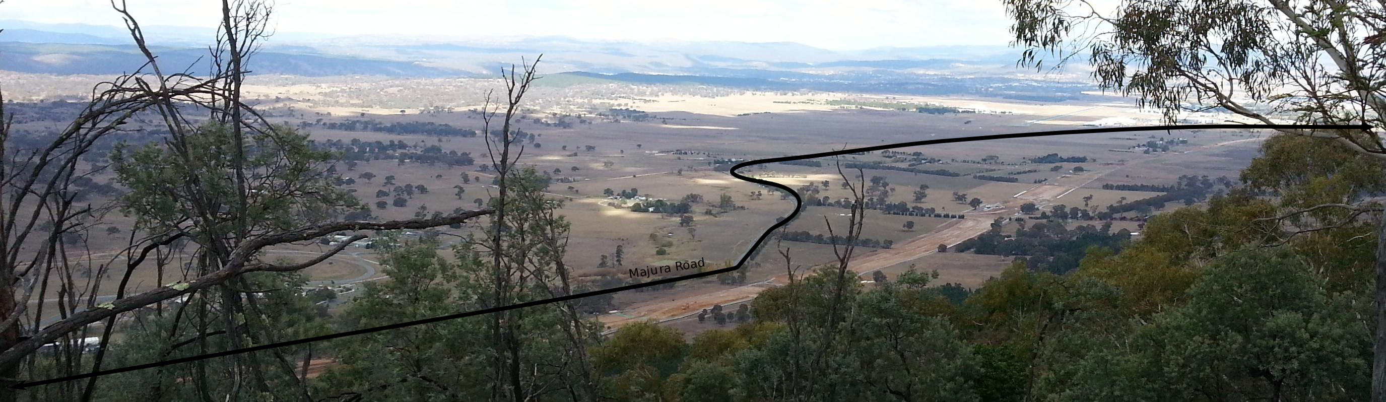 Majura Road alignment. Image taken from summit of Mount Majura